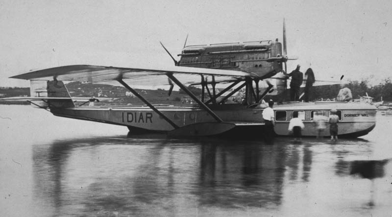 A Dornier Do J Wal flying boat in the harbor of Slite, Sweden, in the summer of 1925. This aircraft has an Italian registration, I-DIAR, because it was built in Italy by Dornier's Italian subsidiary. It was flying on a route between Stockholm and Danzig for Nordiska Flygrederiet, a Swedish subsidiary of the German airline Deutscher Aero Lloyd. (Such foreign subsidiaries were a way for German aircraft makers and airlines to get around the Versailles treaty limitations on aviation in Germany.) The pilot of this aircraft may have been Hermann Göring. I-DIAR was later reregistered in Germany as D-862. Upon its reregistration with Deutsche Luft Hansa in 1926, it was renamed Sägefisch ("sawfish").